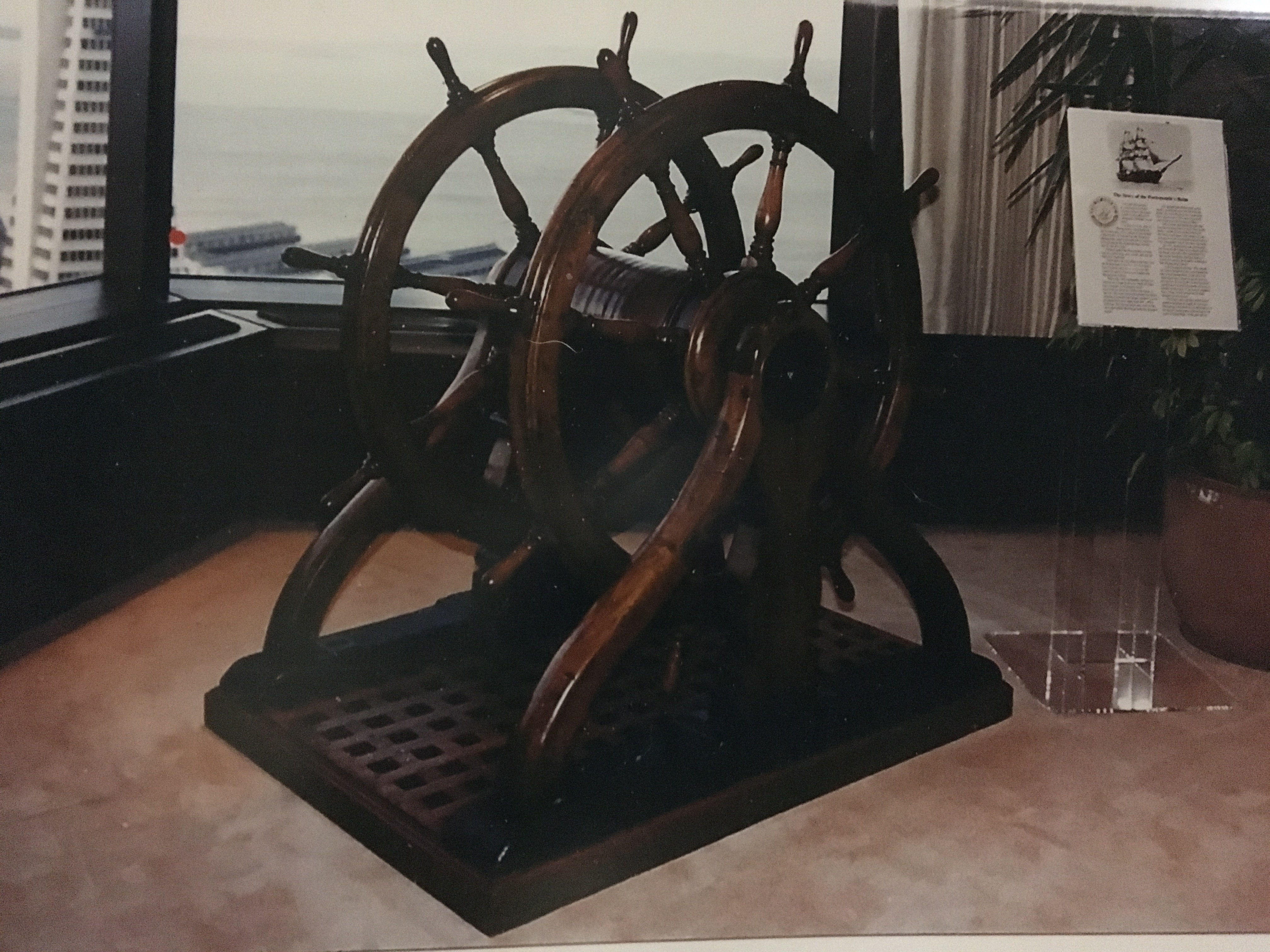 USS Portsmouth helm removed during decommissioning, given to Bank of America